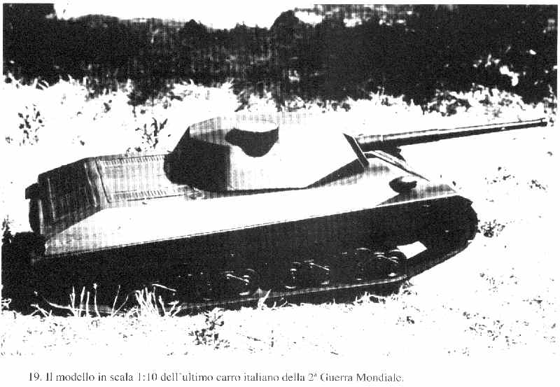 Italian WW2 era exsperimental tank